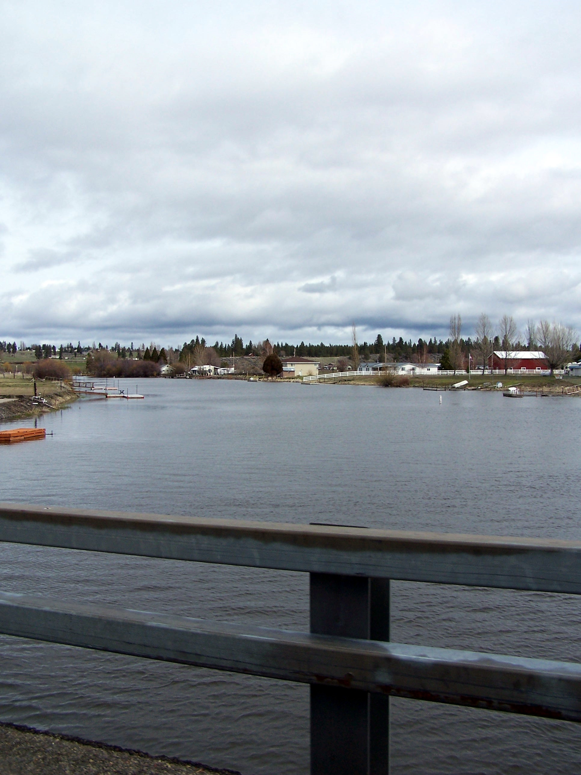 The Williamson River near the community of Williamson River, southwest of Chiloquin.